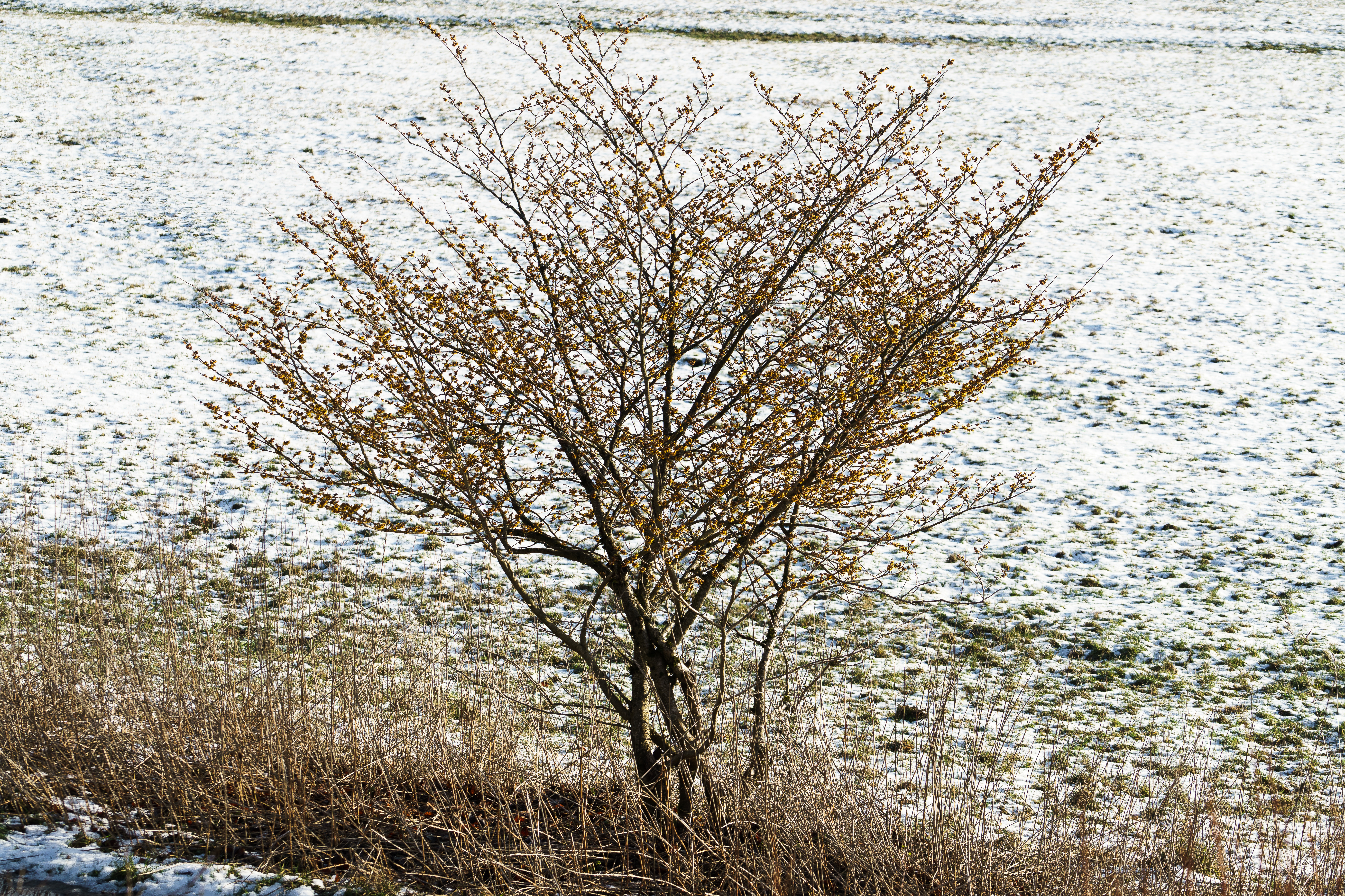 Witch-hazel / Hamamelis – Winter-flowering in the Vogelsberg Mountains